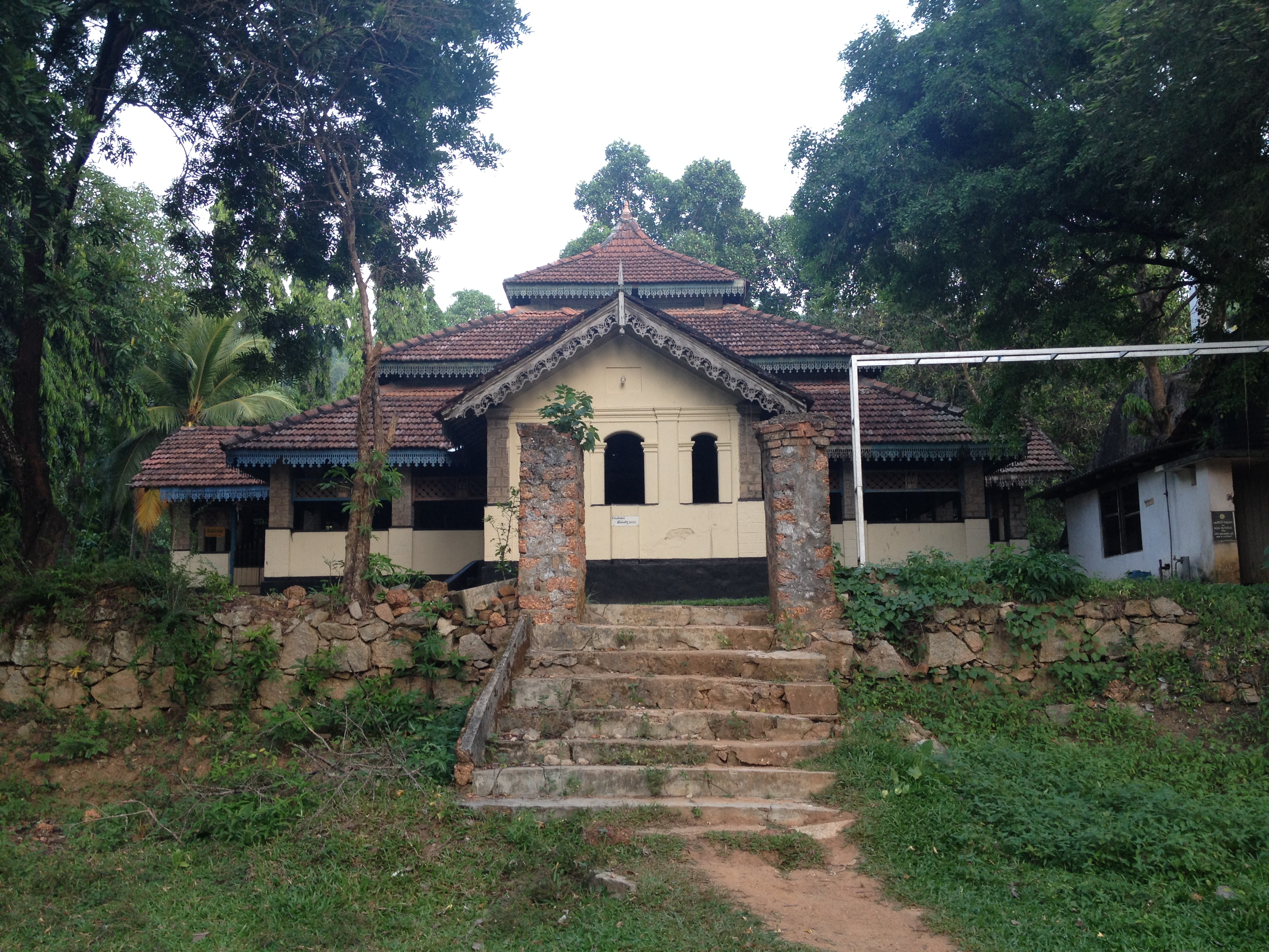 The Dharmasala in Vihara premises